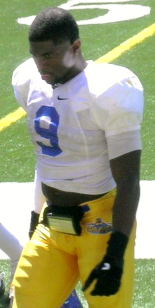 San Jose State running back Brandon Rutley at the 2011 summer scrimmage.